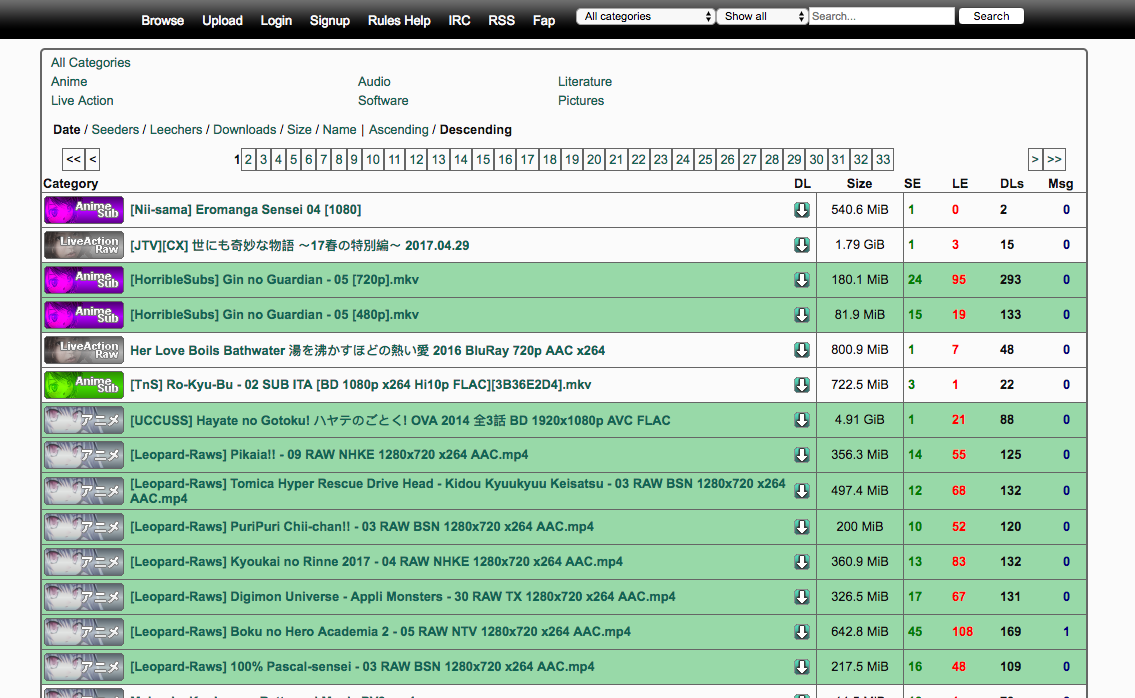 A screenshot of the Nyaa Torrents homepage. Top portion of the full page shown.